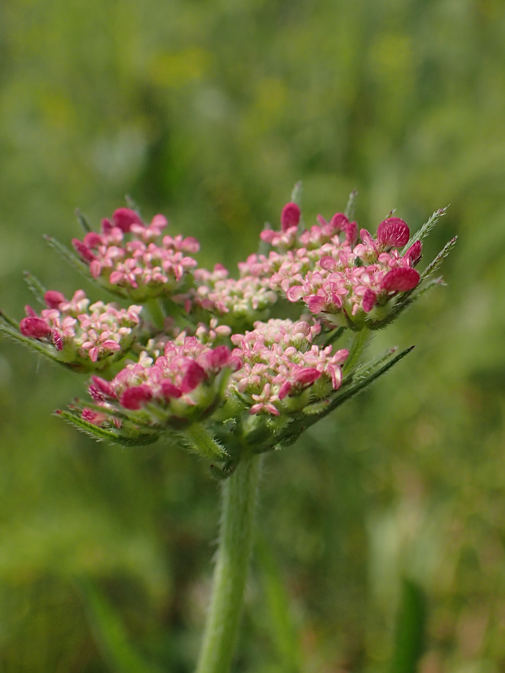 Turgenia latifolia in Plagia near Cherso, N Greece